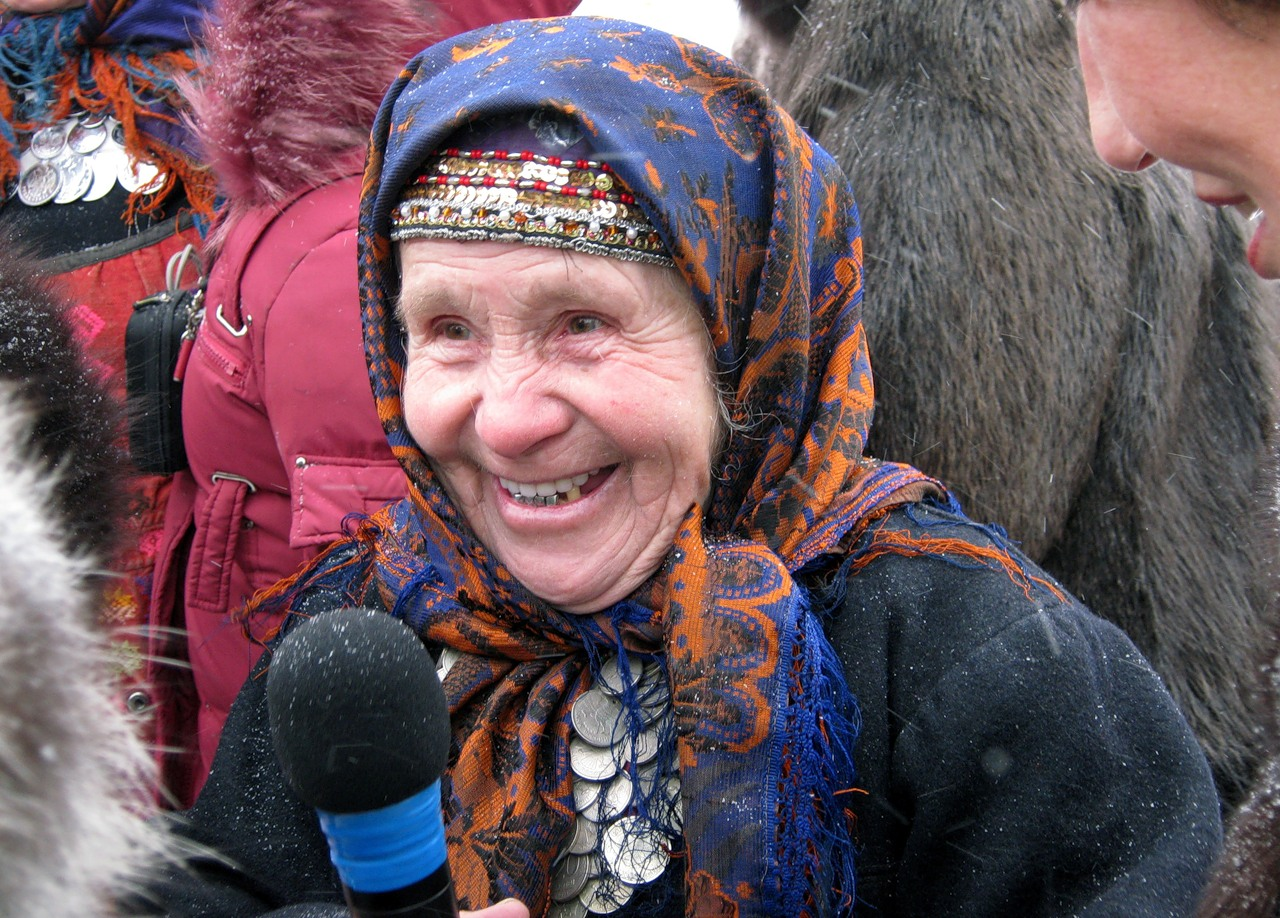 Buranovskiye Babushki